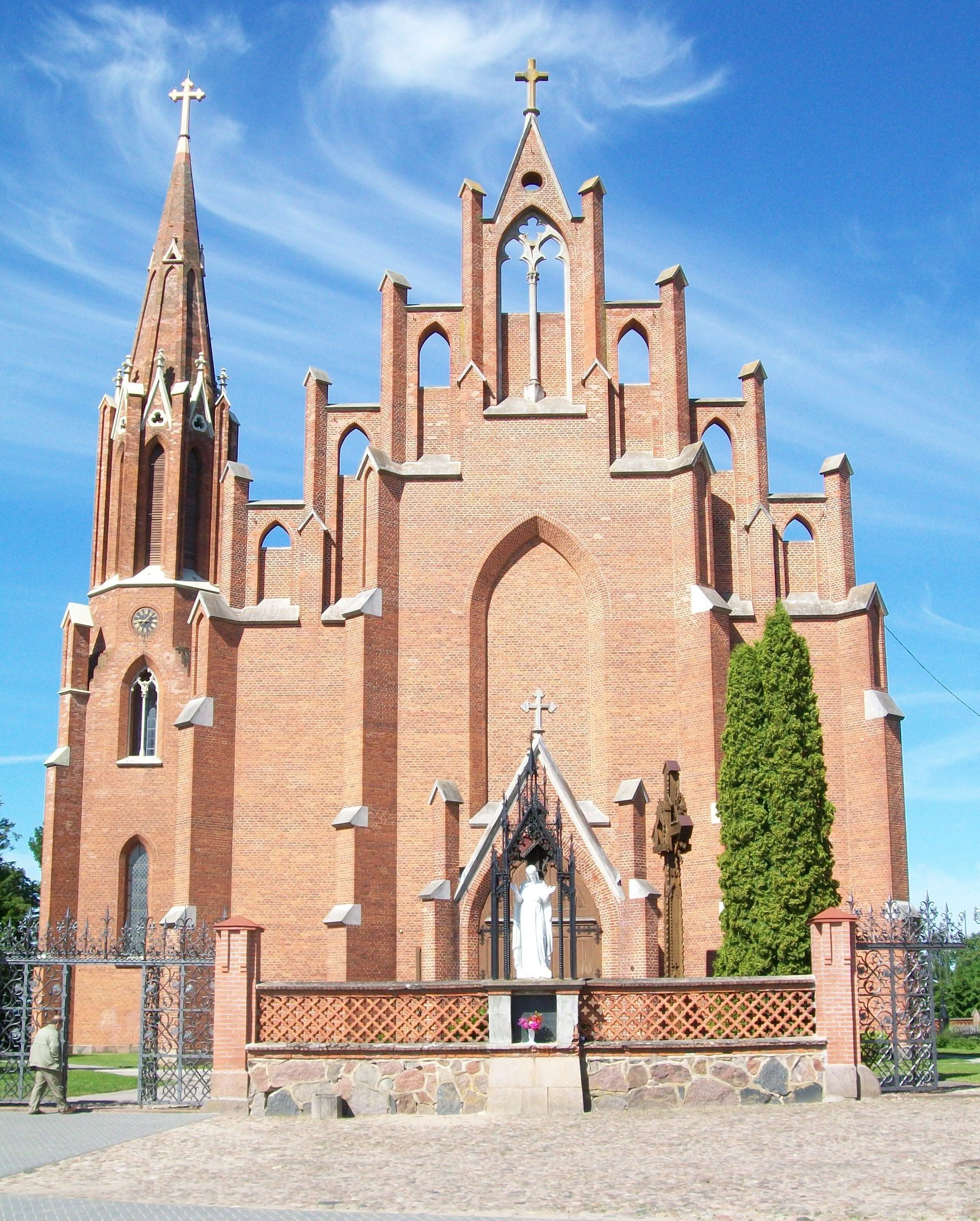 Frontal view of the Church of St Matthew the Apostle and Evangelist, Rokiškis, Lithuania